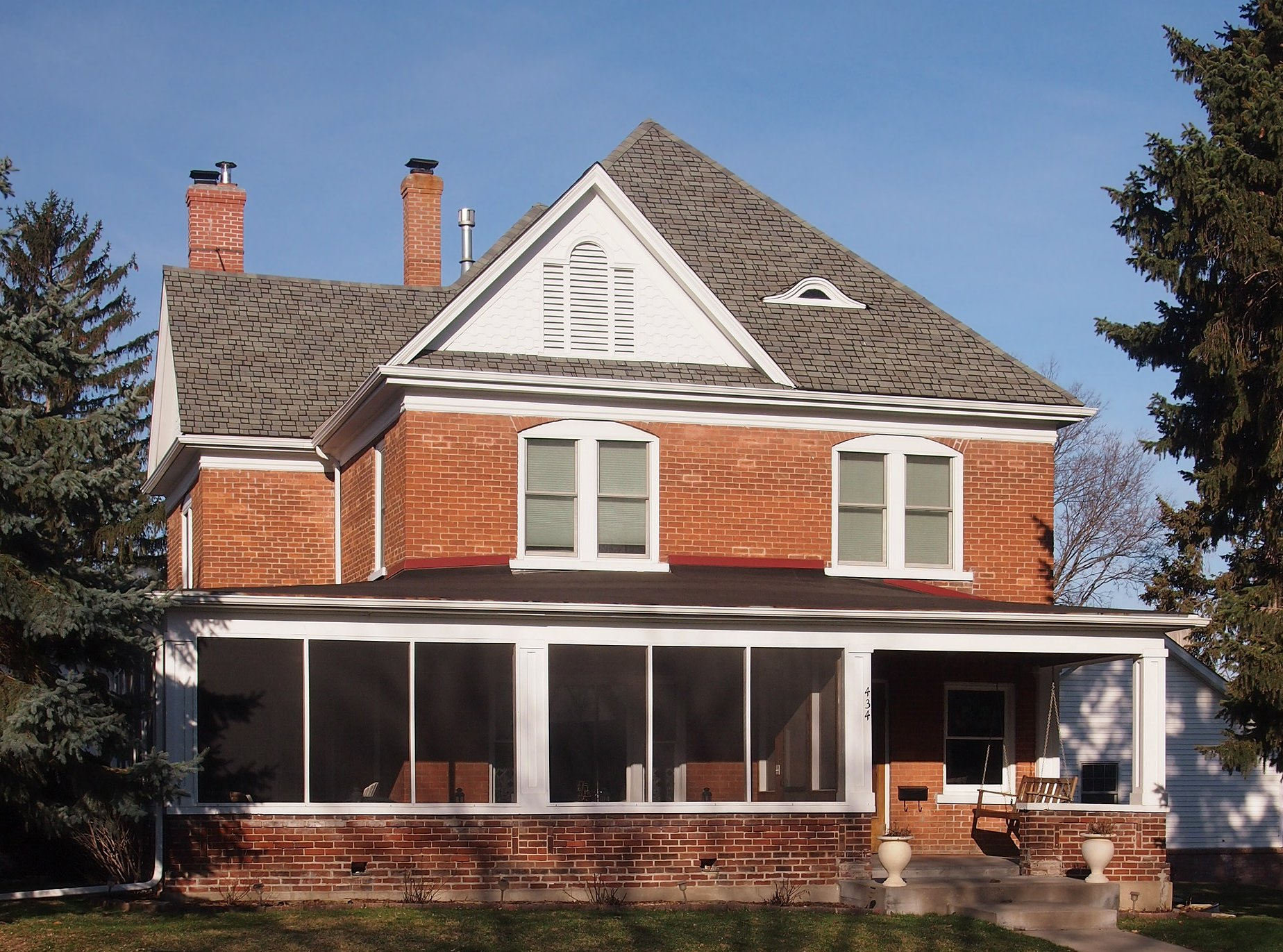 Julius A. Coller House, 434 S Lewis St, Shakopee, Minnesota, USA. Viewed from the east.